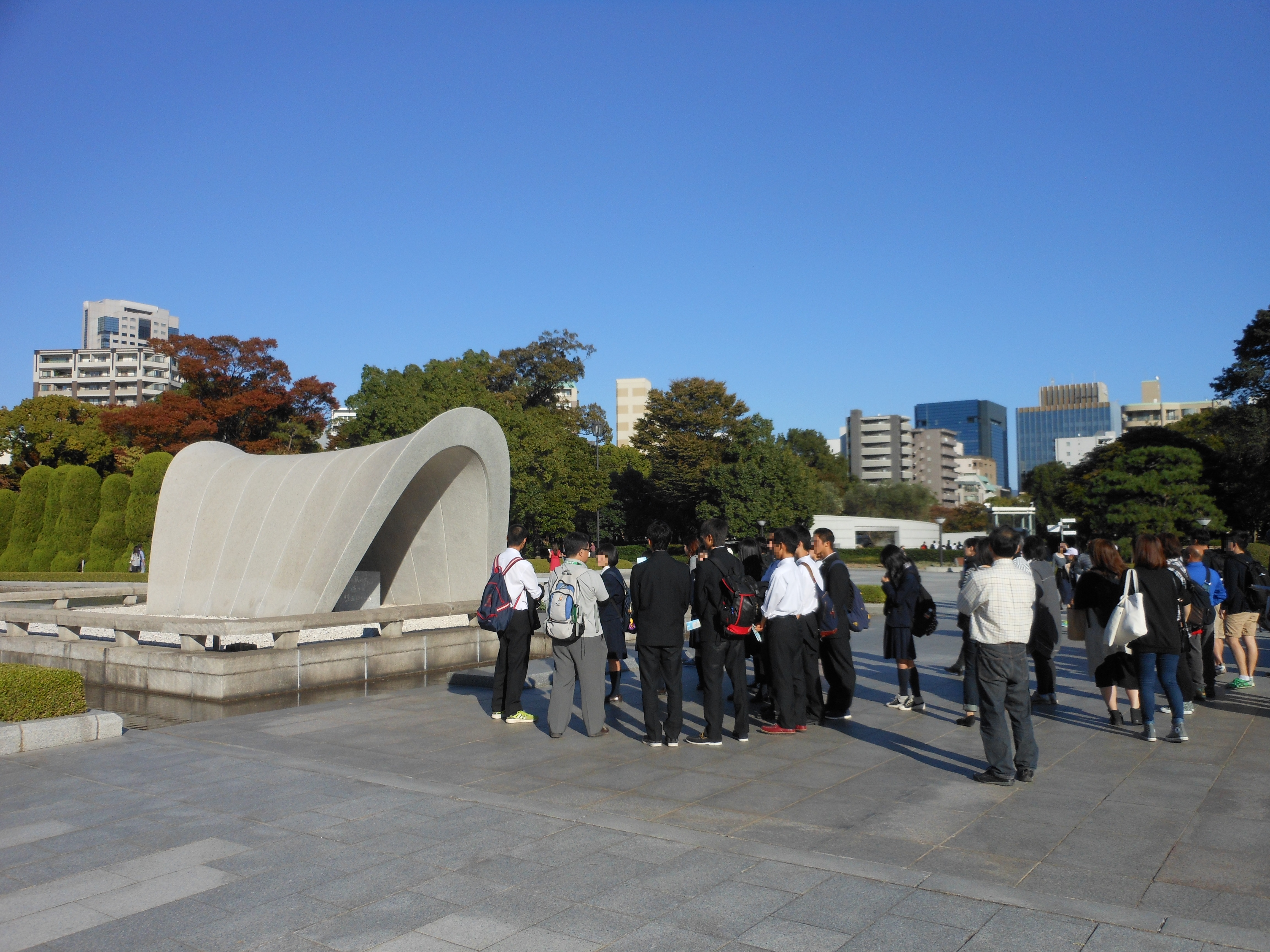 This is one scene of a peace education at Hiroshima Peace Memorial Park. High school students was studying about atomic bombing in Hiroshima.